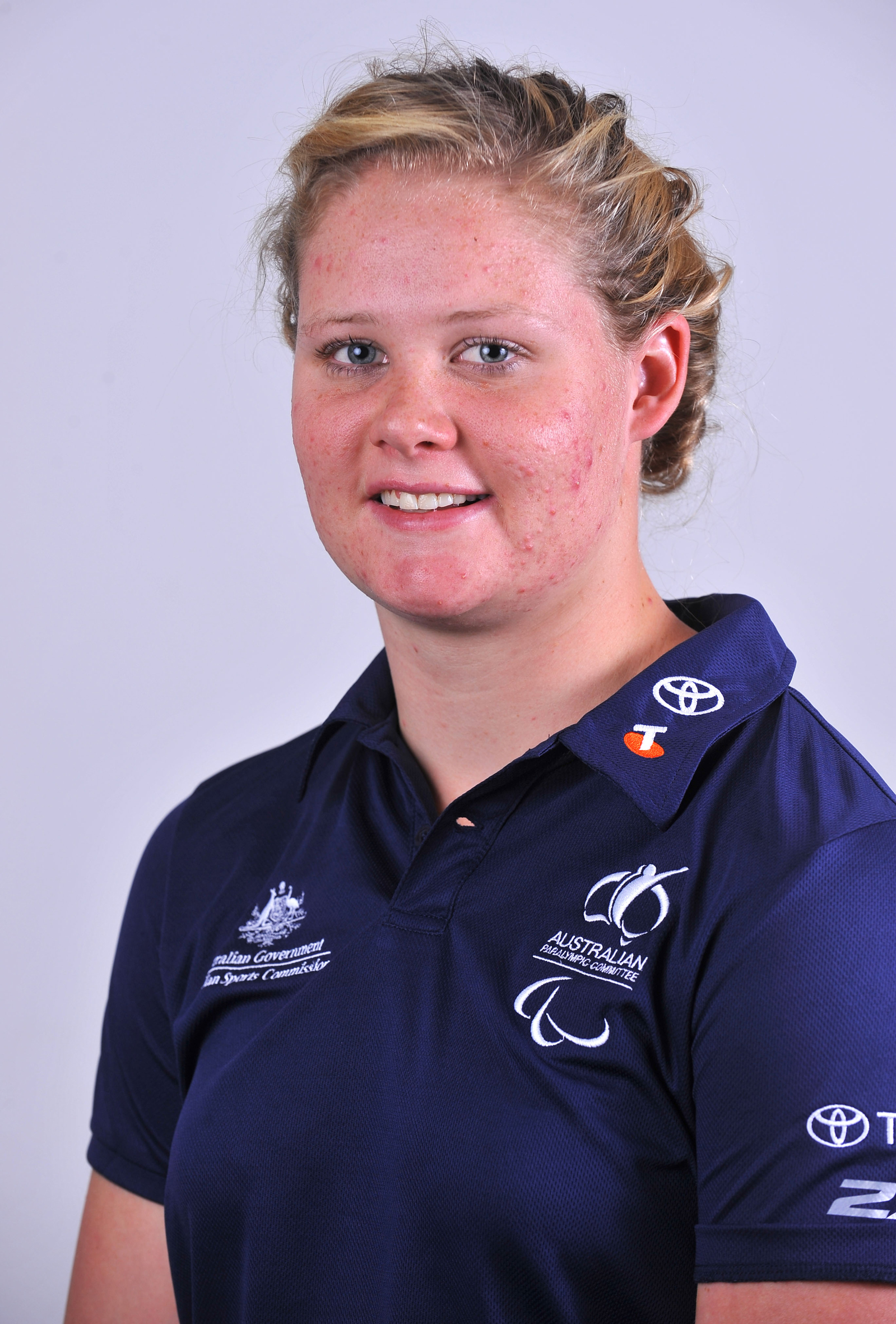 Portrait of Australian swimmer Kara Leo, 2012 Australian Paralympic (shadow) Team athlete